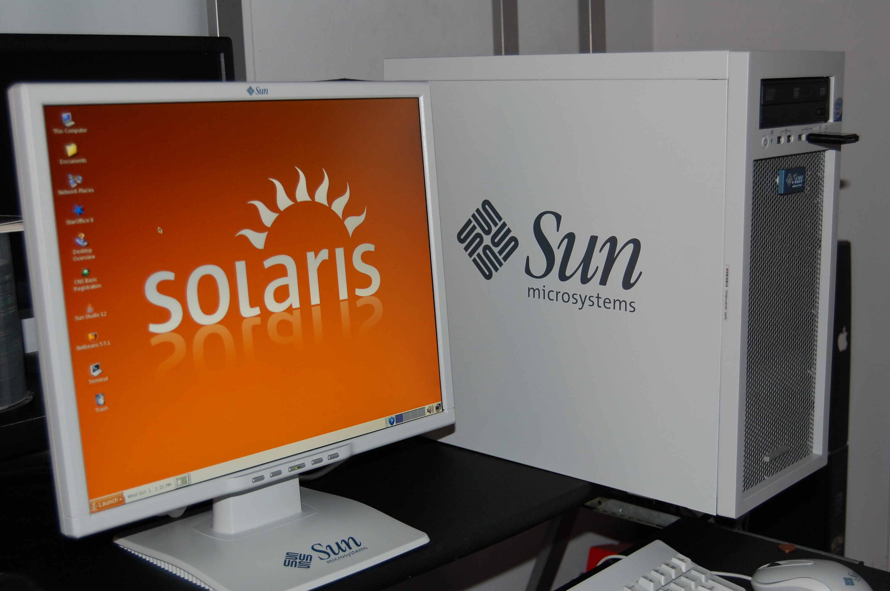 Sun Ultra 24 from Sun Microsystems